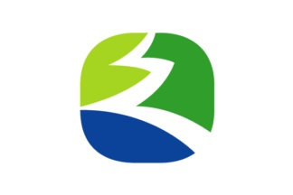 Flag of Kuki Saitama